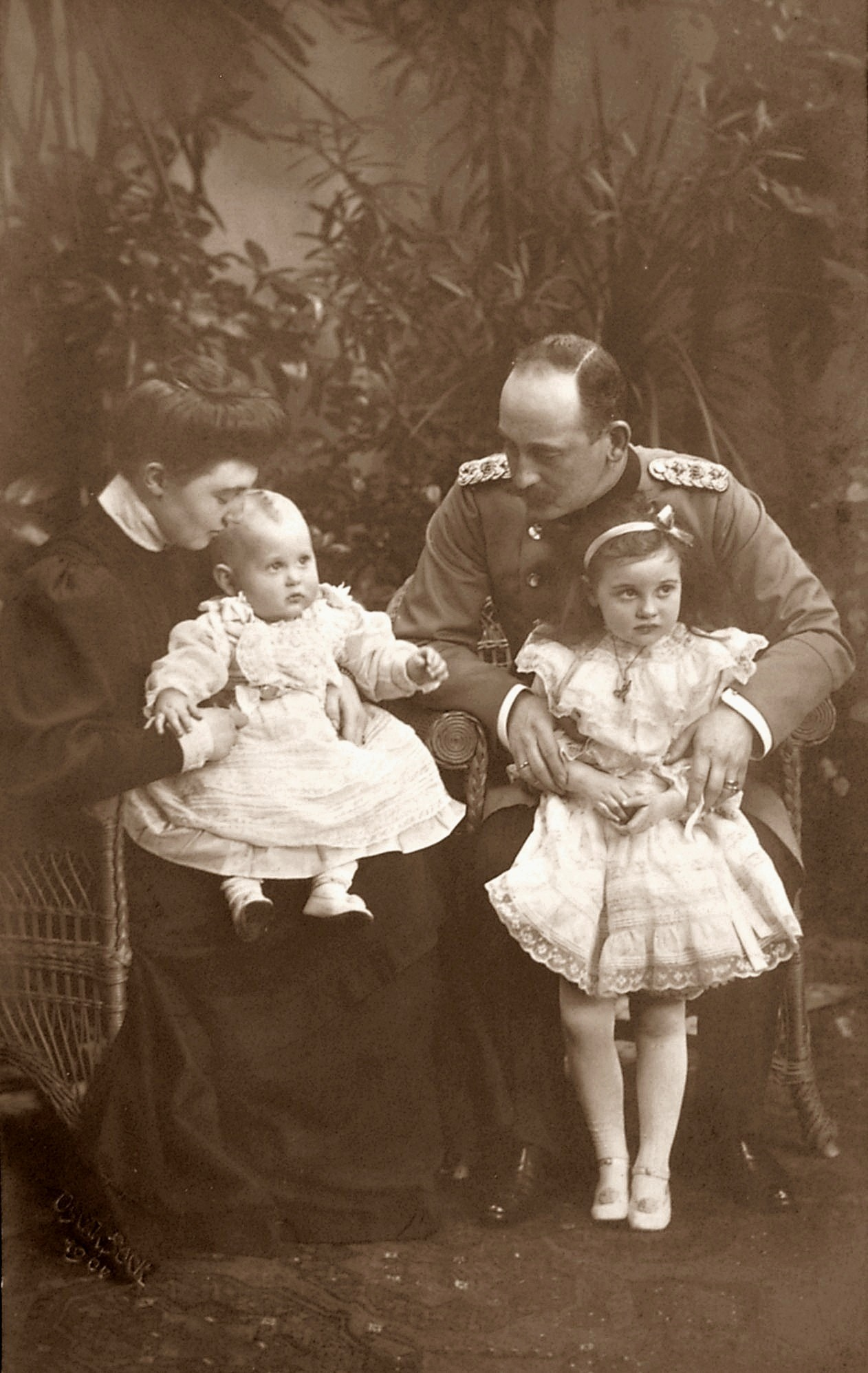 Photography of the Family Prince Maximilian of Baden with Princesse Marie Louise of Hannover Cumberland and their children Marie Alexandra and Berthold.